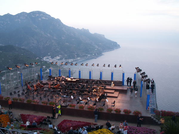 My own privately taken photo of the Ravello Festival